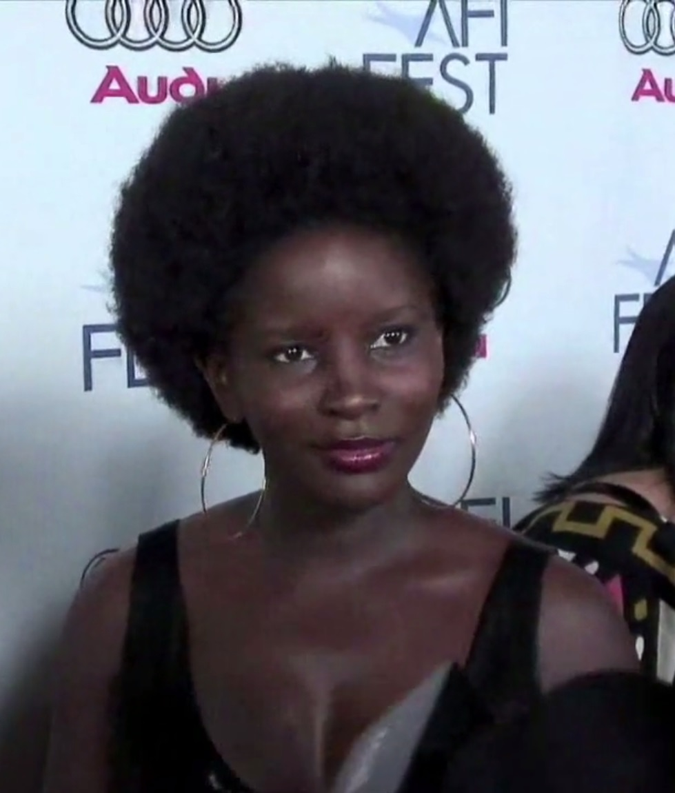 Ugandan actress and producer Nana Hill Kagga interviewed by RealTVfilms about her role in the film A Good Day to Be Black and Sexy.